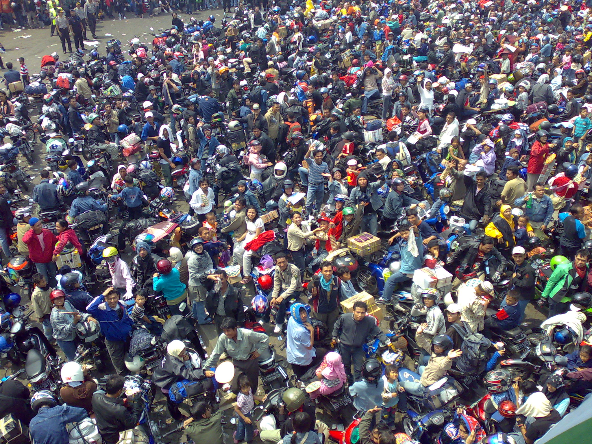 Thousands of motorcycle riders waiting for ferry at Port of Merak, Banten, Indonesia.